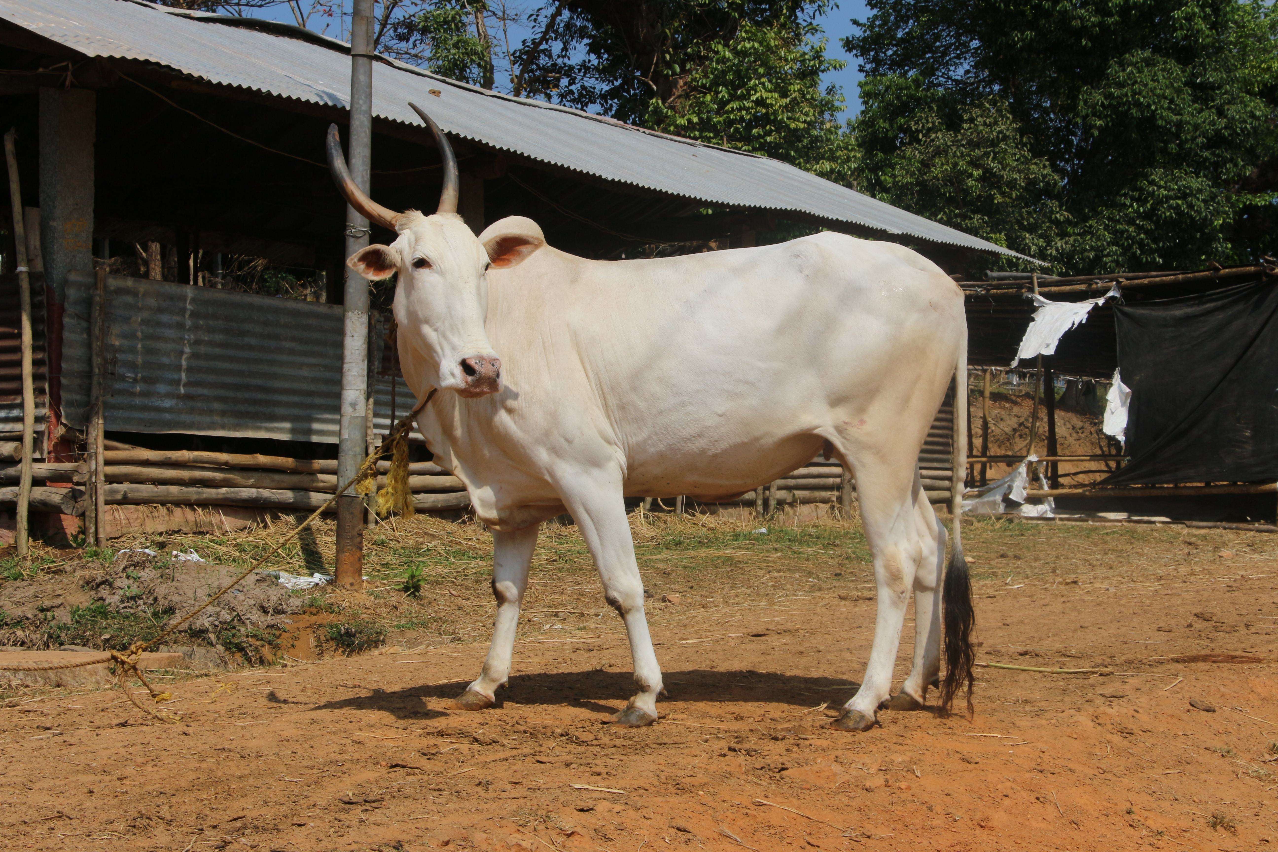 Indian cow breed Khilari ಕನ್ನಡ: ಭಾರತೀಯ ಗೋತಳಿ ಖಿಲಾರಿ